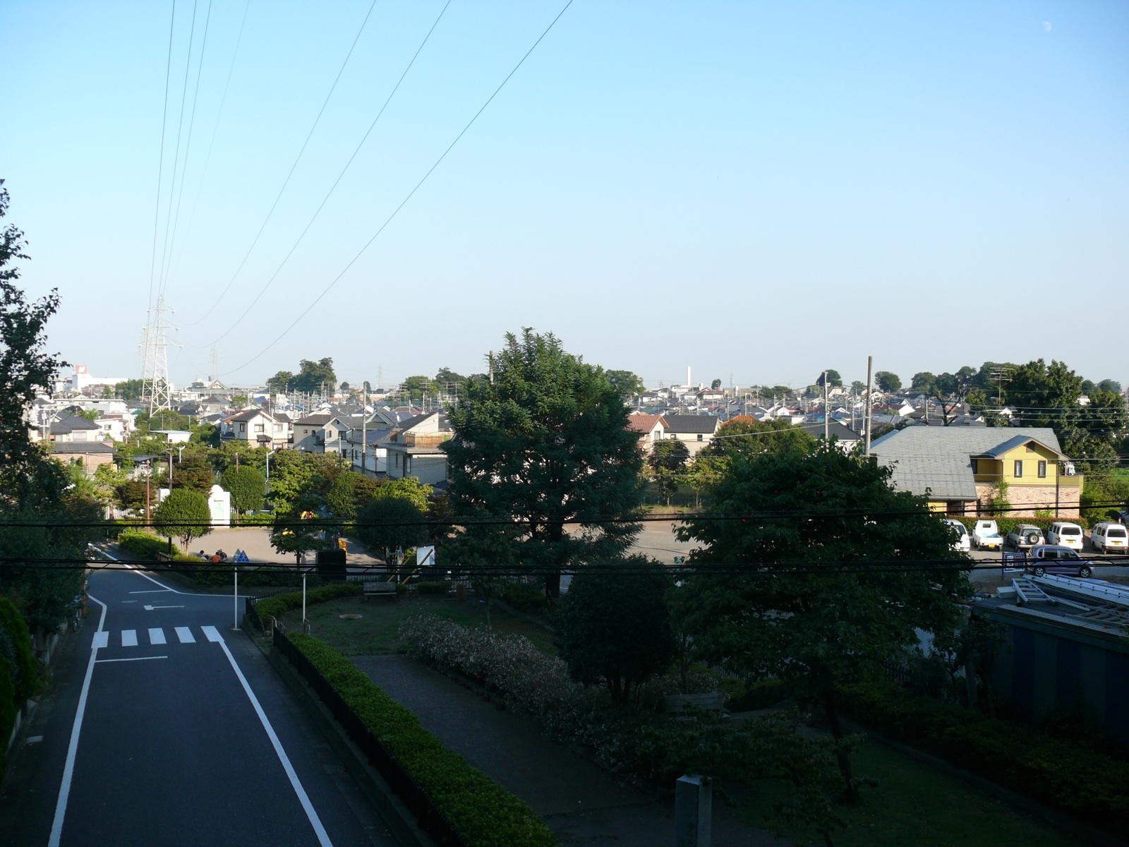 Kumegawa Battlefield in 2008. A stone column commemorates the battle fought in 1333 and is located at the bottom of the photo. This photo was taken from the slope of Hachikokuyama from which the victorious Samurai general Nitta Yoshisada commanded the battlefied. Less than a week later Nitta's troops fought themselves 50 kilometers south to Kamakura and destroyed the city and ended the Kamakura Shogunate. Kumegawa is now part of Higashimurayama (surburban Tokyo).